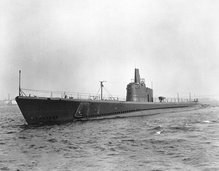 Removed caption read: Photo # NH 98486 - USS Amberjack (SS-219) off Groton, Connecticut, 30 May 1942